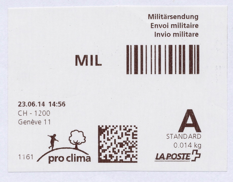 Meter stamp for a military letter issued at CH-1200 Genève 11.